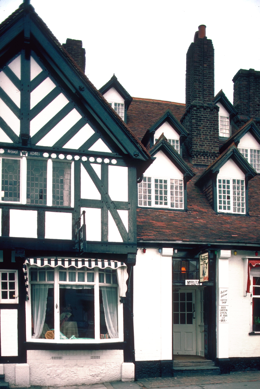 Myddelton Arms in the town of Ruthin in Denbighshire, Wales; the building, housing the Seven Eyes Pub, so called because of the seven dorma windows was built in the 16th Century in the Dutch Style by Richard Clough, who worked in Antwerp.